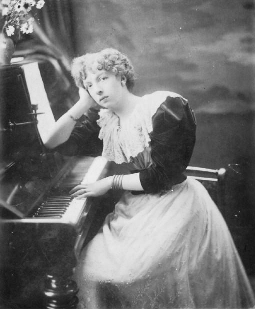 French pianist and composer Cécile Chaminade (1857-1944).